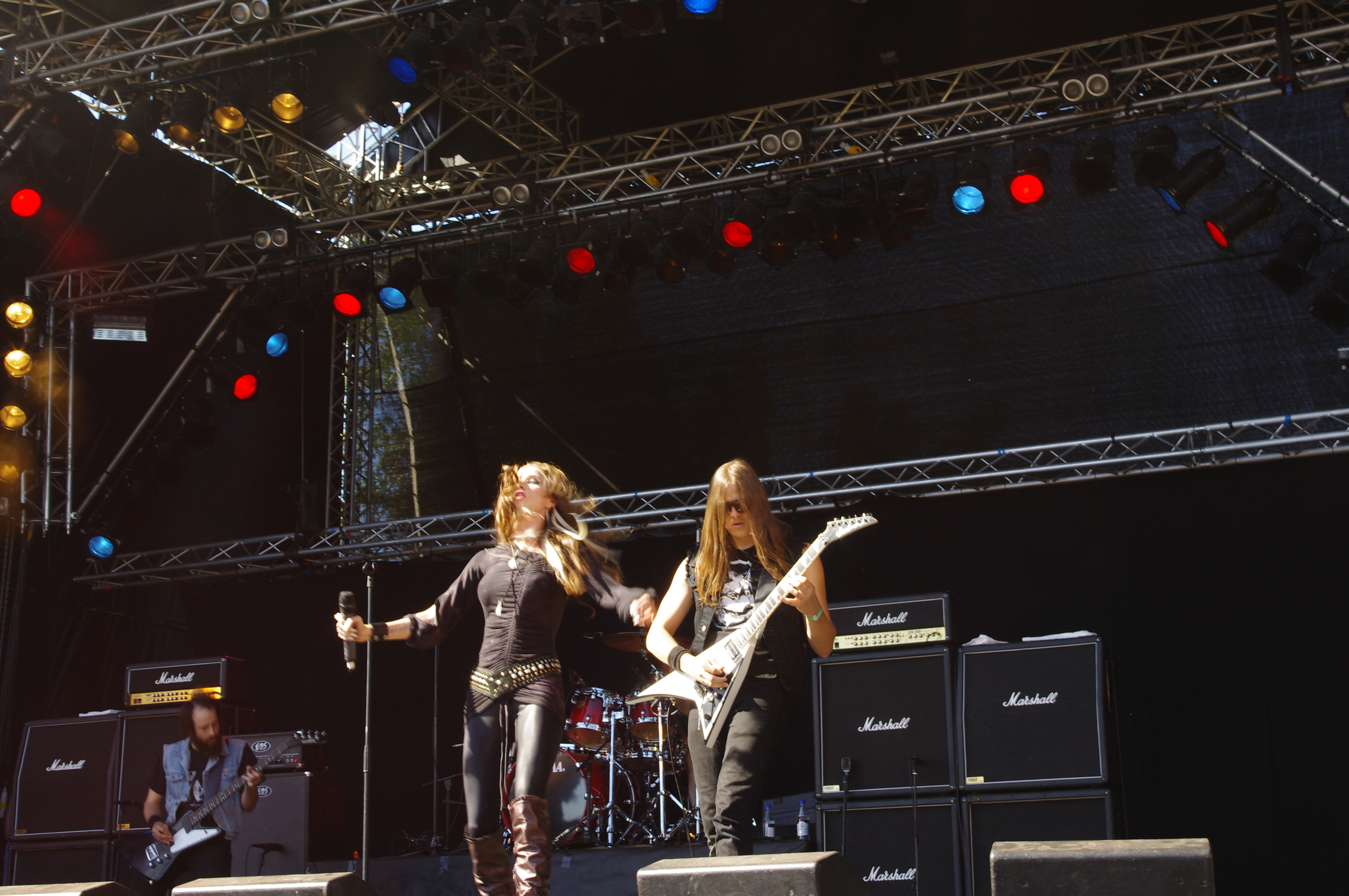 Huntress in 2013